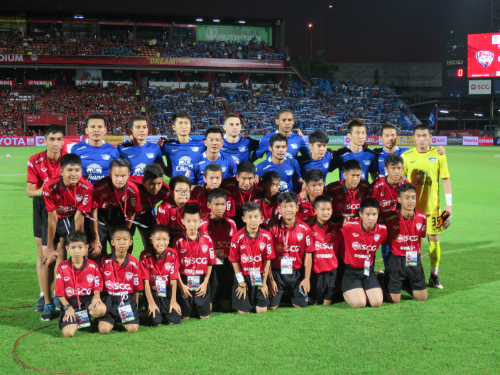 Chonburi FC in 2016 ahead of the game against Muang Thong United